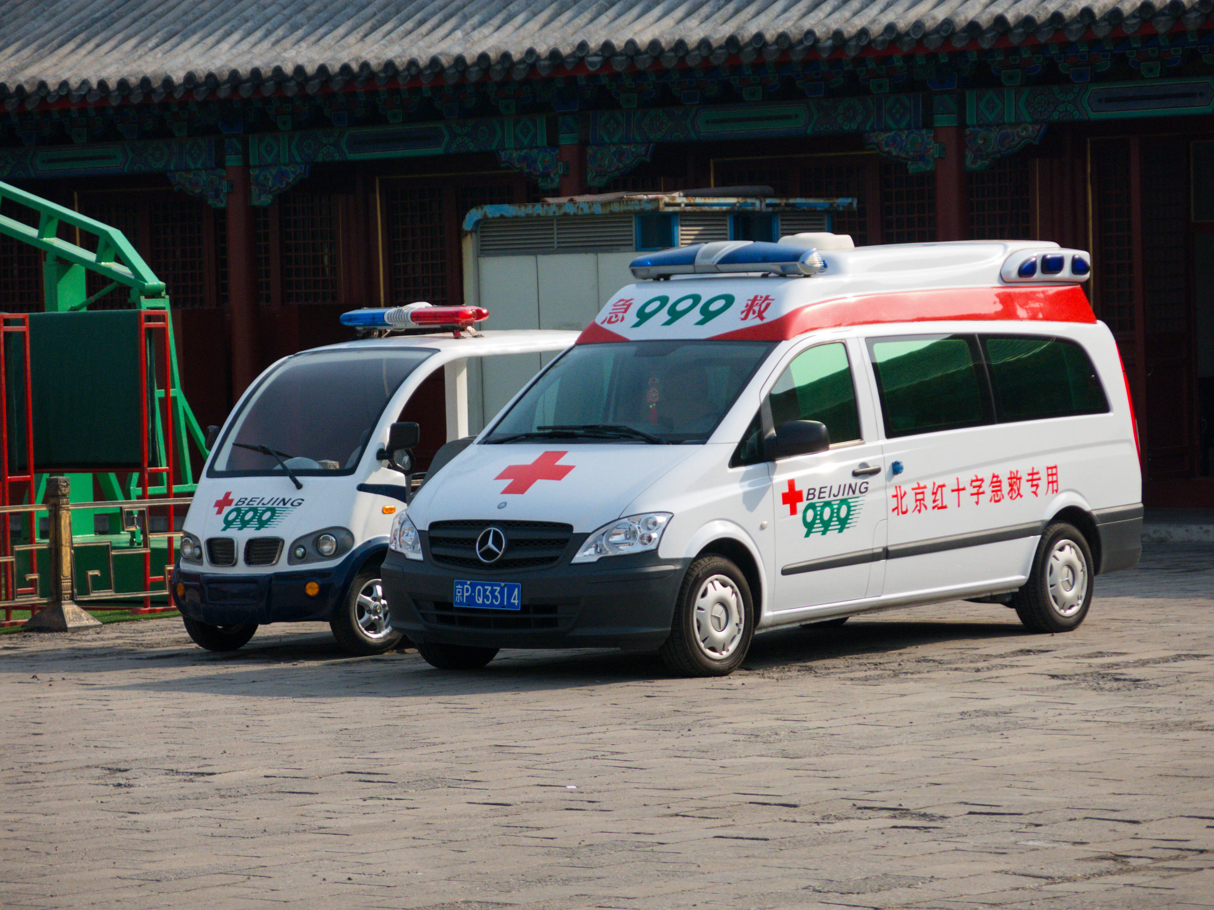 Beijing 999 Ambulance Service Mercedes Vito